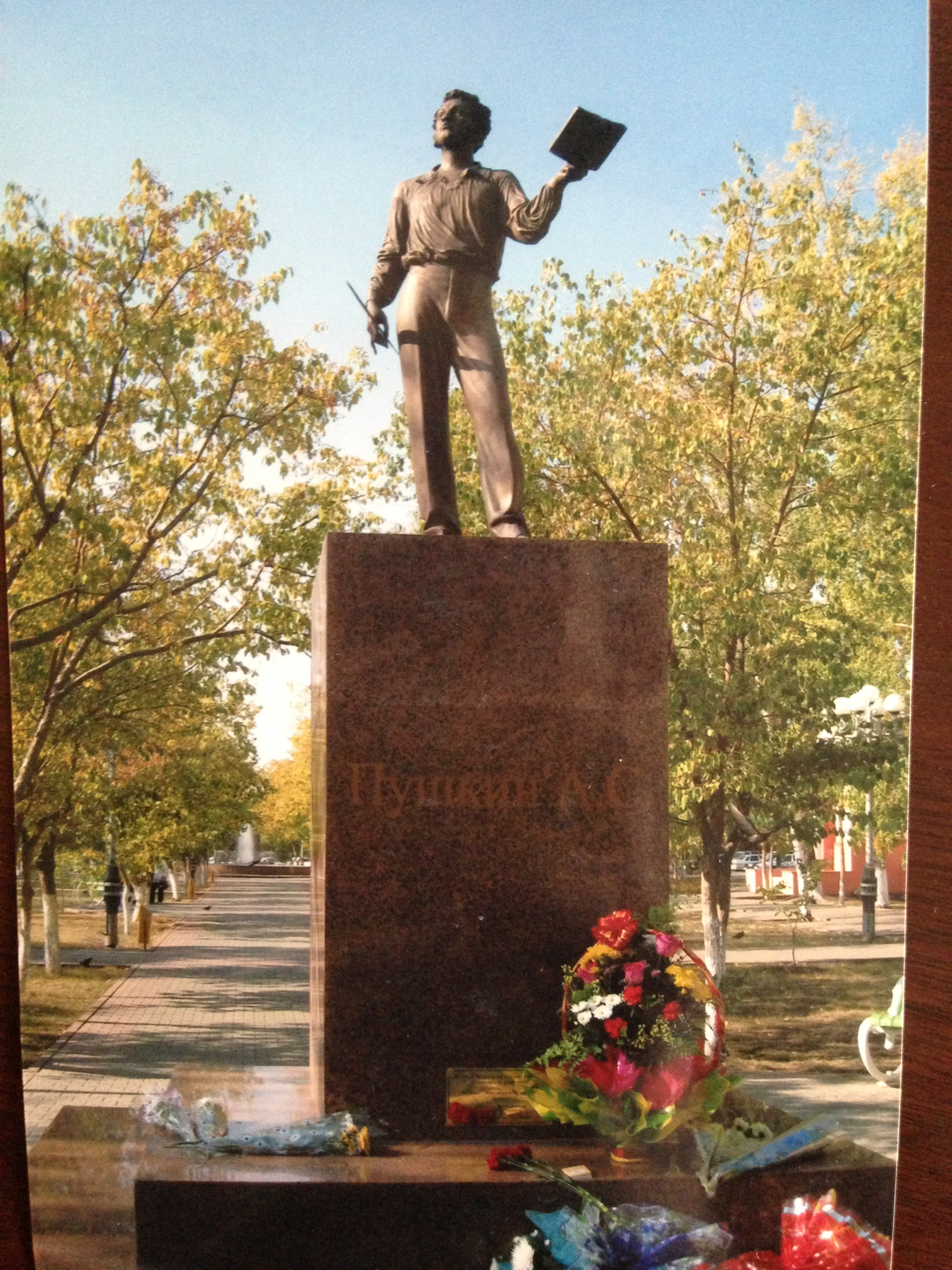 Russian Poet